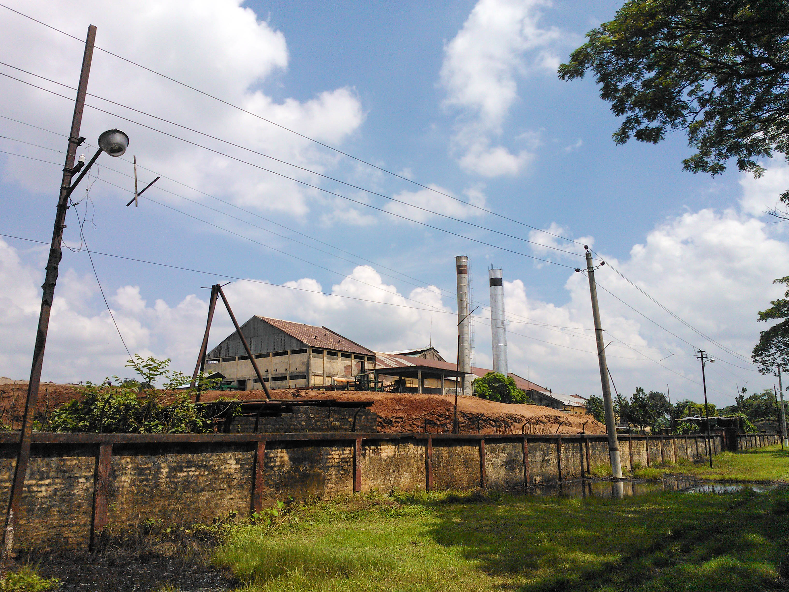 Rajshahi Sugar Mills Ltd., also known as Harian Suger Mill, Harian, Rajshahi, Bangladesh.